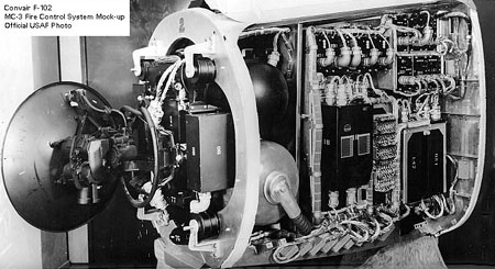 Convair F-102A MC-3 fire control system mock-up